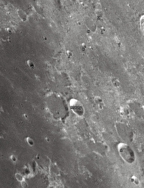 Maury lunar crater as seen from Earth with satellite craters labeled